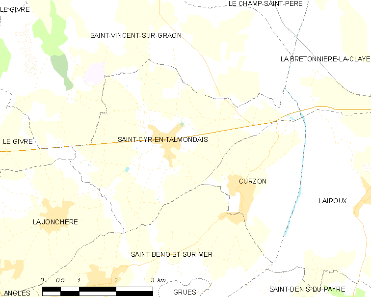 Map of French municipality Saint-Cyr-en-Talmondais